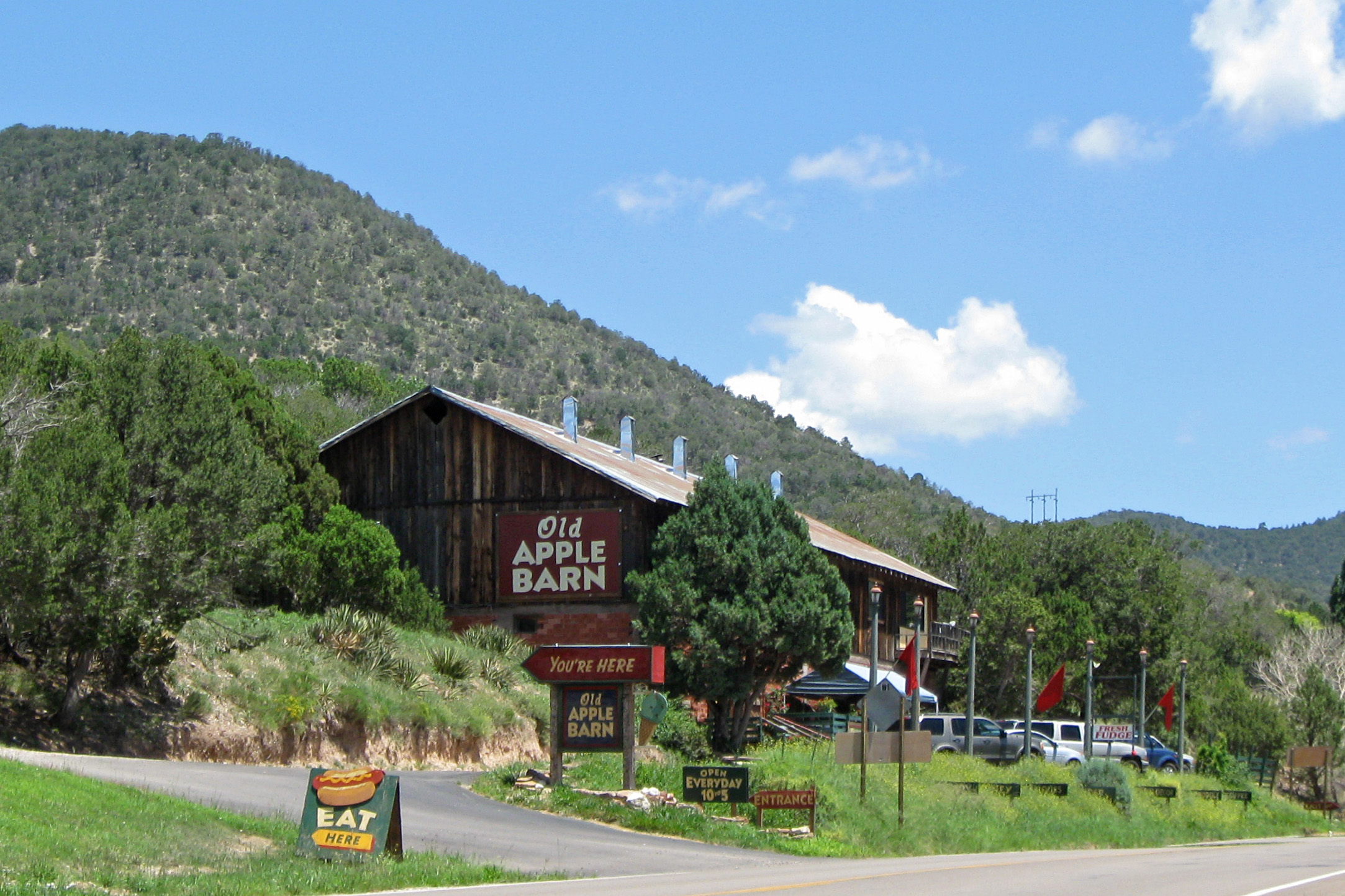 The Old Apple Barn, a gift shop and restaurant (and former apple barn) located in Mountain Park, New Mexico between mile markers 9 and 10 on US Highway 82. Built 1941.